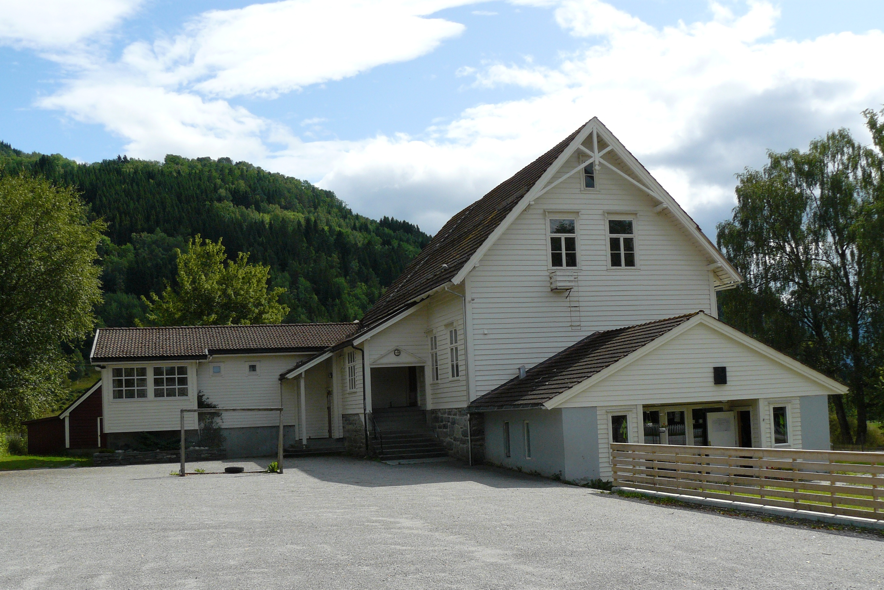 Vereide school in Gloppen